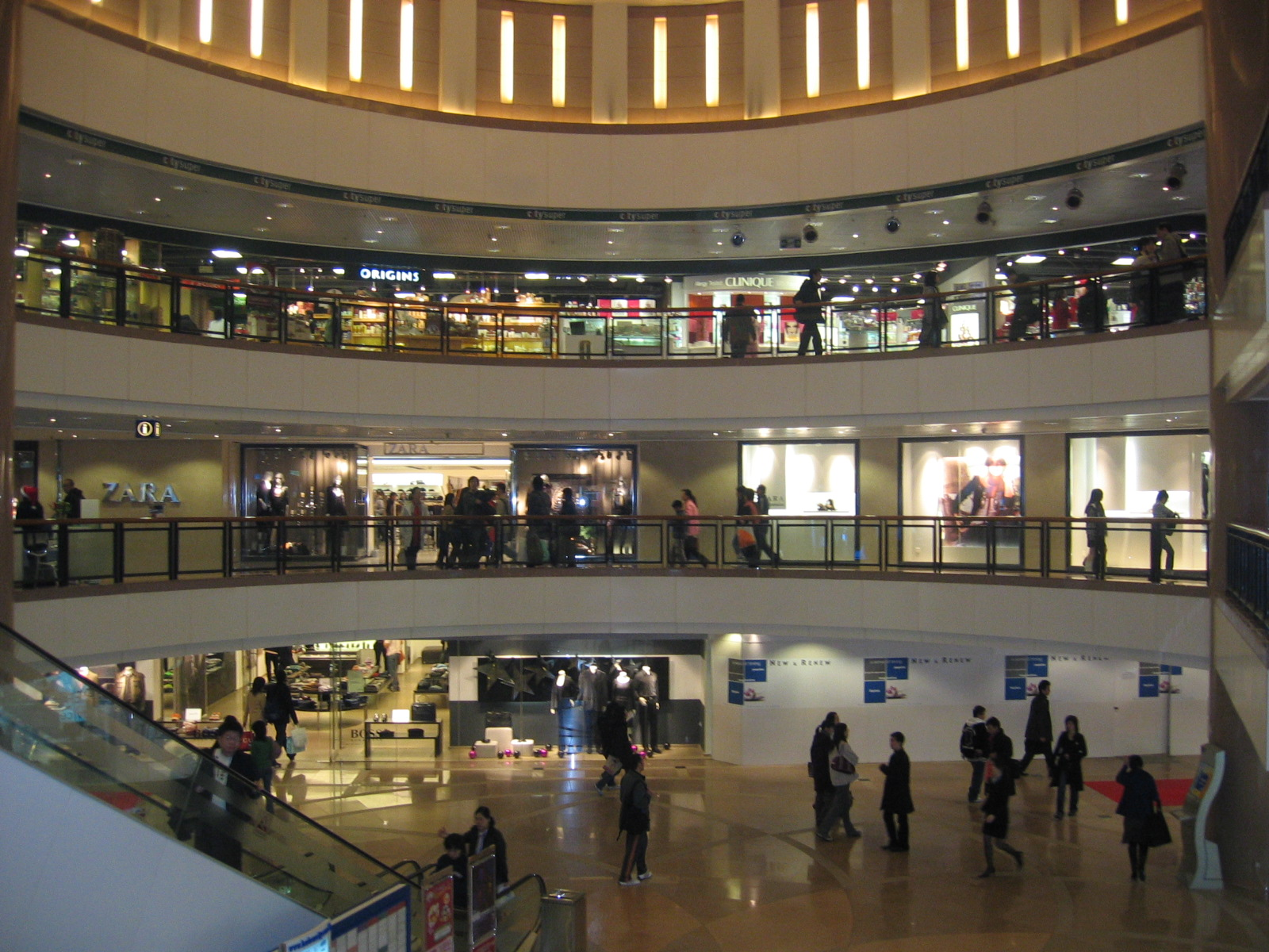 Atrium of The Gateway, Harbour City, Hong Kong.